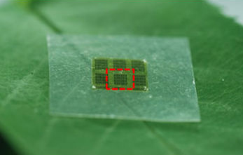 Microwave active GaAs electronic devices on CNF paper.